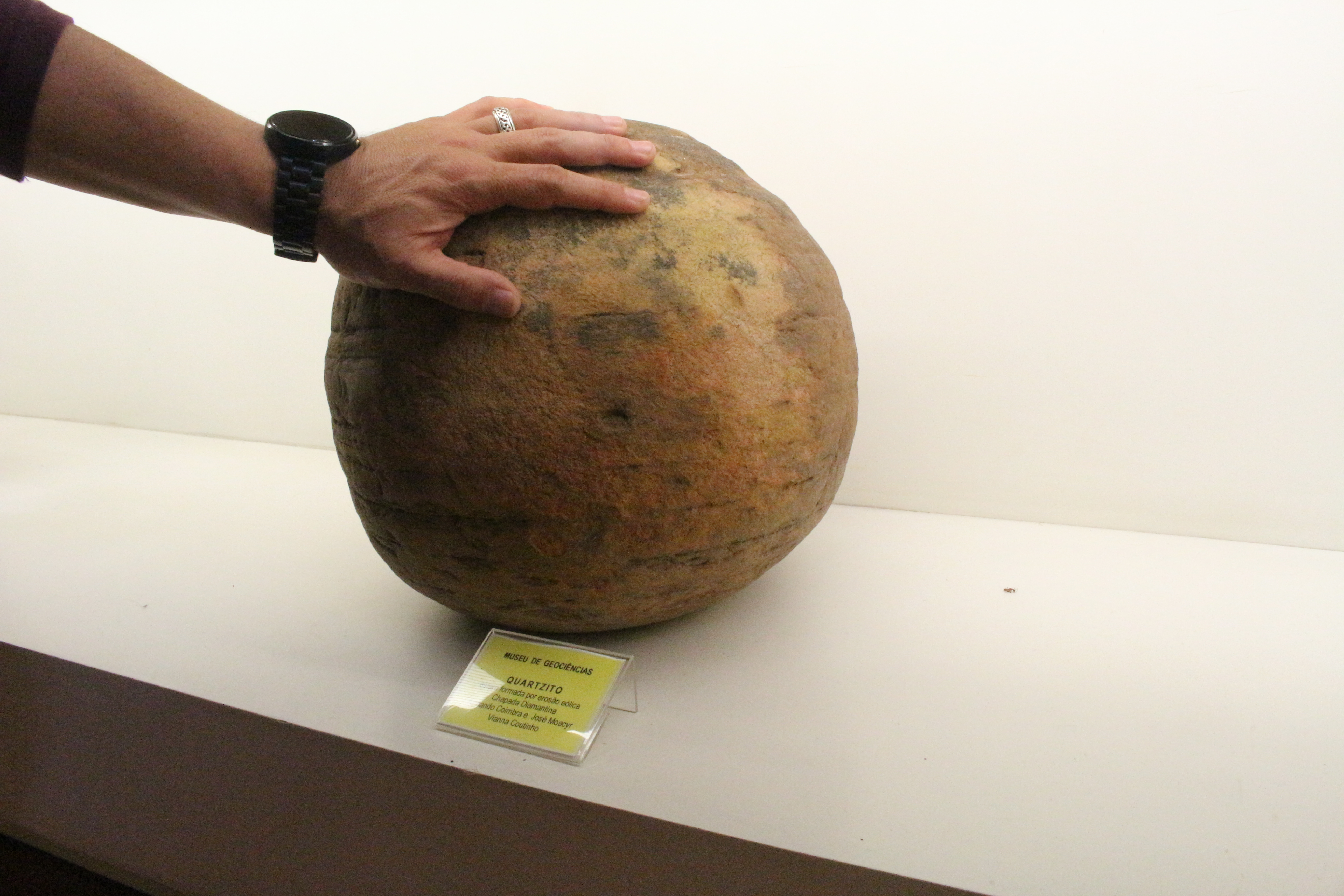 Sphere formed by erosion - Museum of Geosciences of the Institute of Geosciences of USP